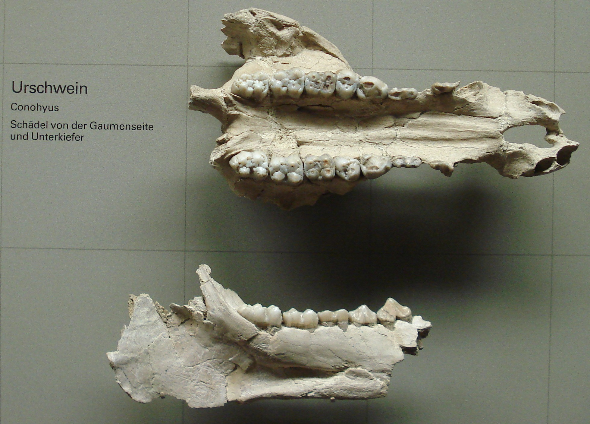 fossil of conohyus